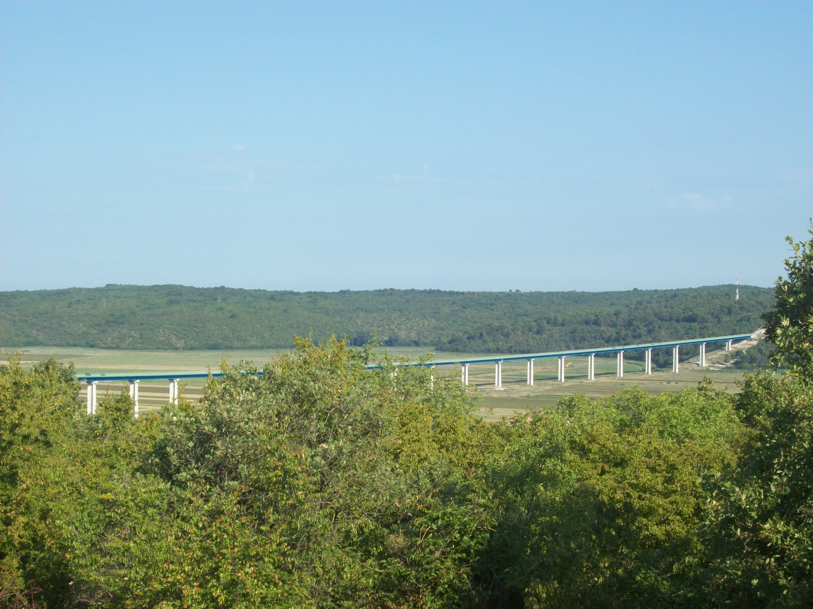 Mirna bridge from east